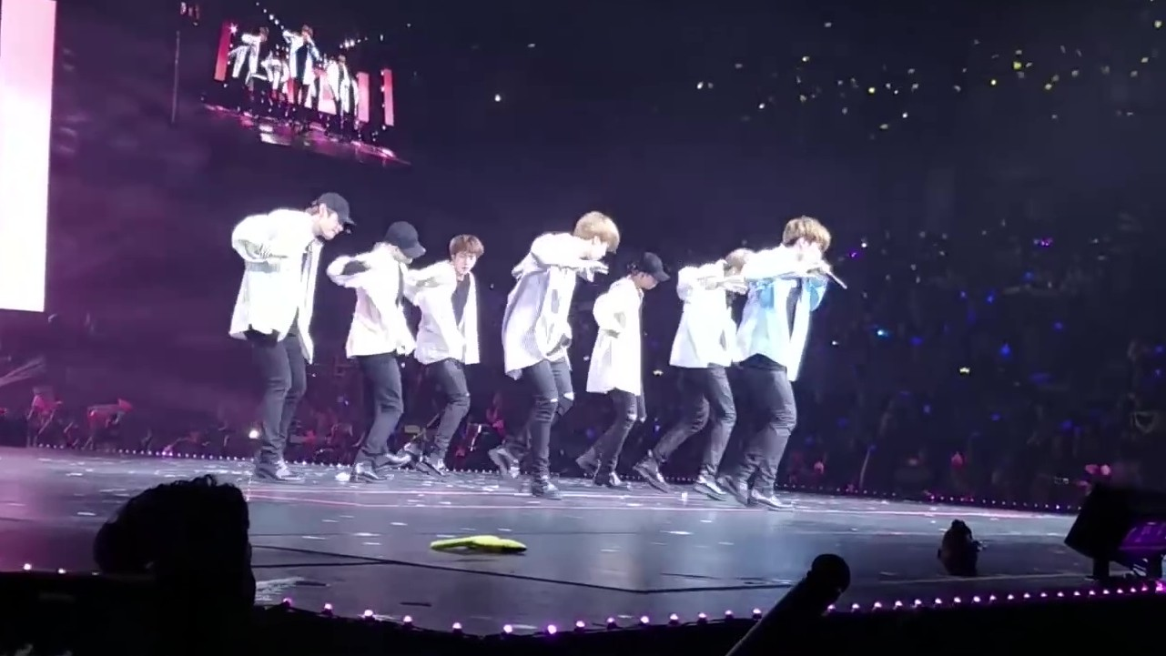 BTS performing "Spring Day" during the BTS Live Trilogy Episode III The Wings Tour in Anaheim, 2 April 2017